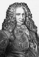 picture of Portuguese minister from 18th C. D. Luis da Cunha